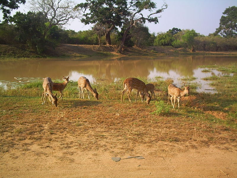 Herd of deers at yala national park